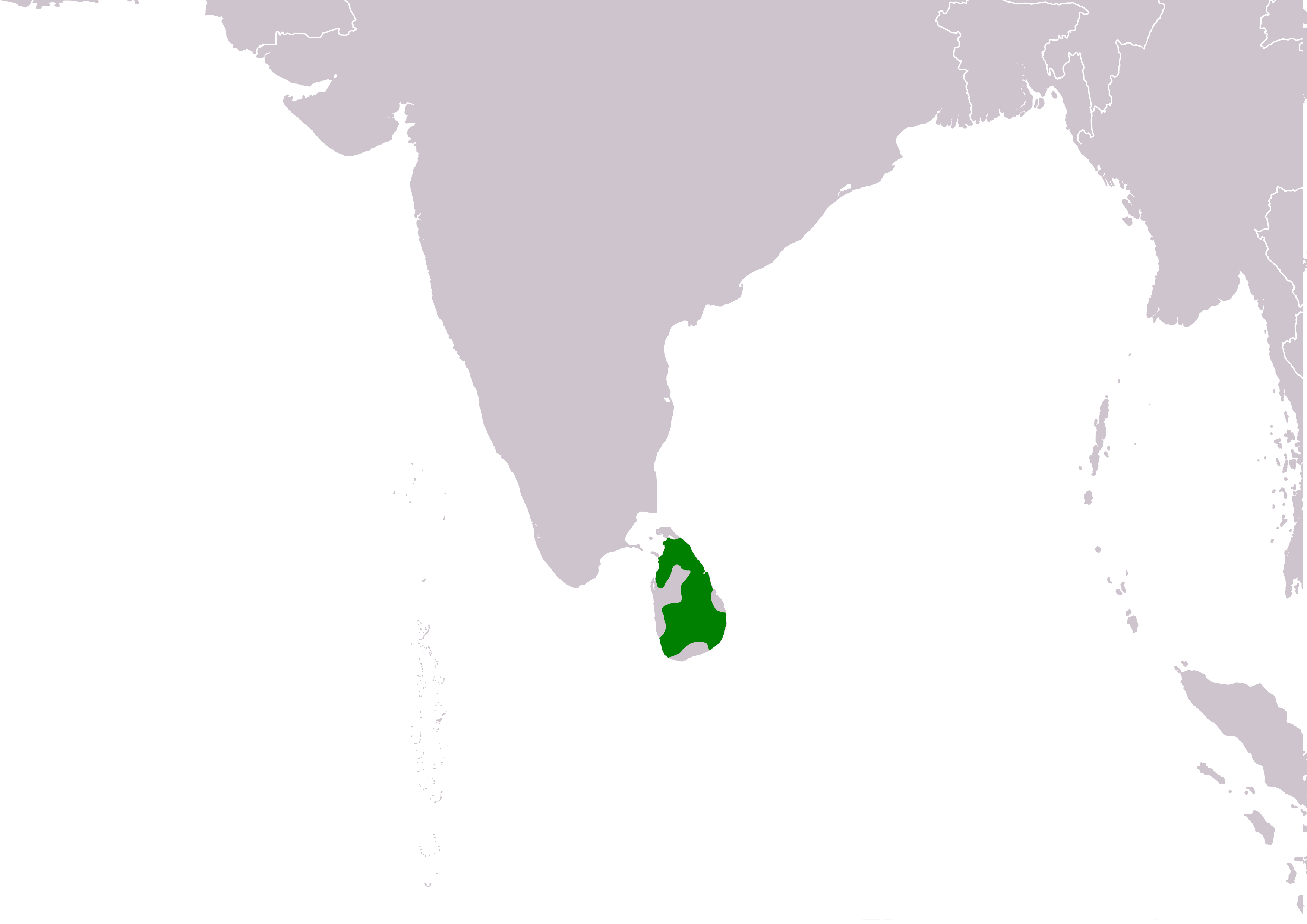 map of chestnut-backed owlet (Glaucidium castanotum) according to IUCN ver 2018.2 Legend: Extant, resident (#008000)